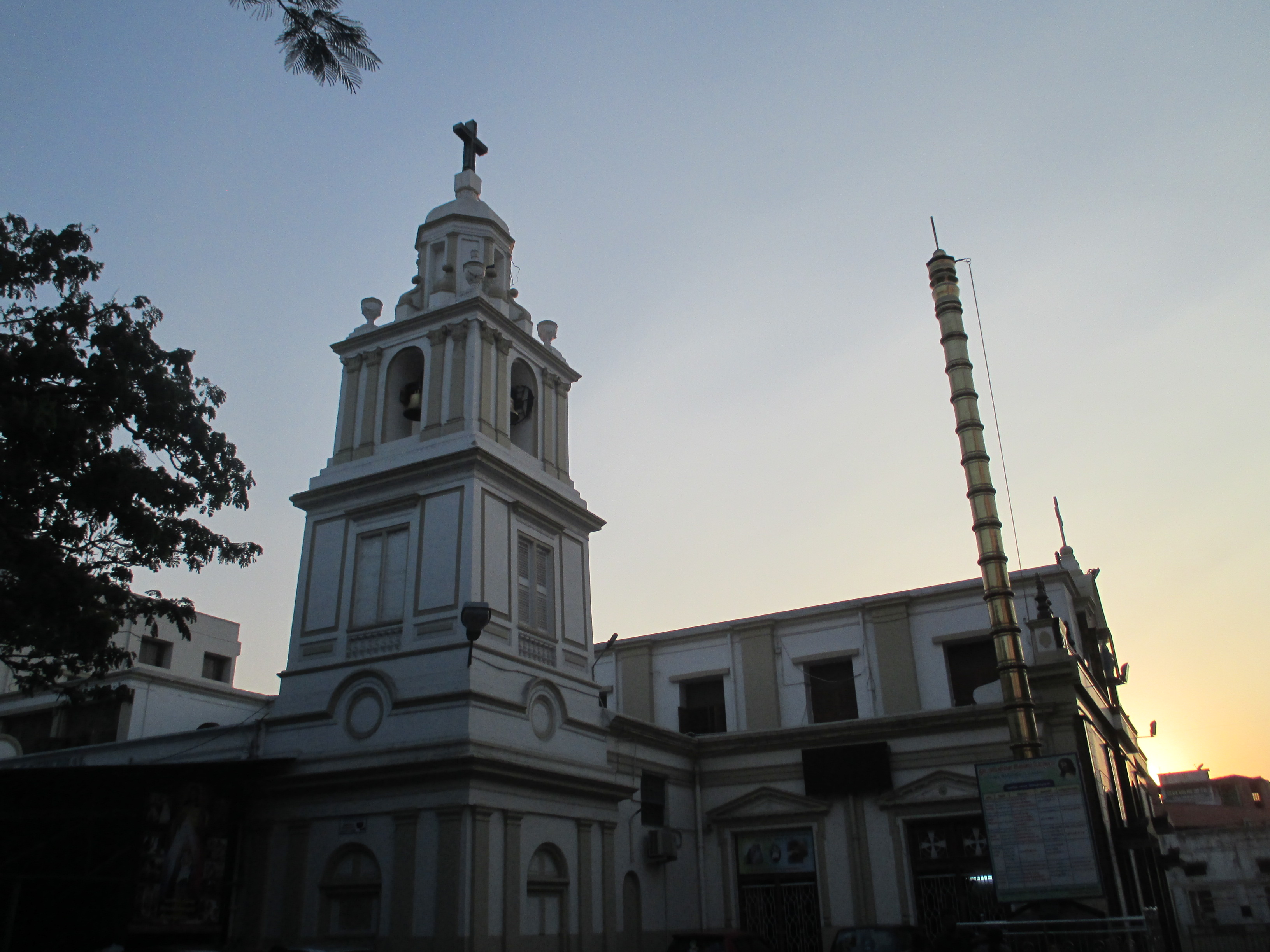 St Mary's Co-Cathedral